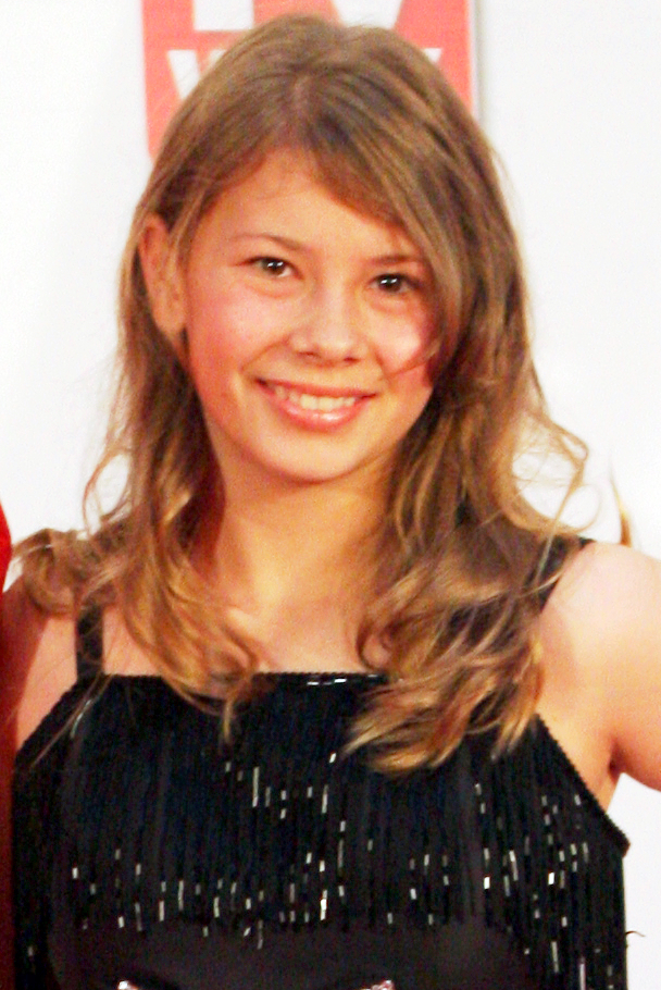 Bindi Irwin at the TV Week Logies 2011.